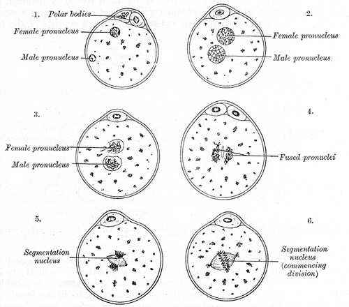 The process of fertilization in the ovum of a mouse. (After Sobotta.)